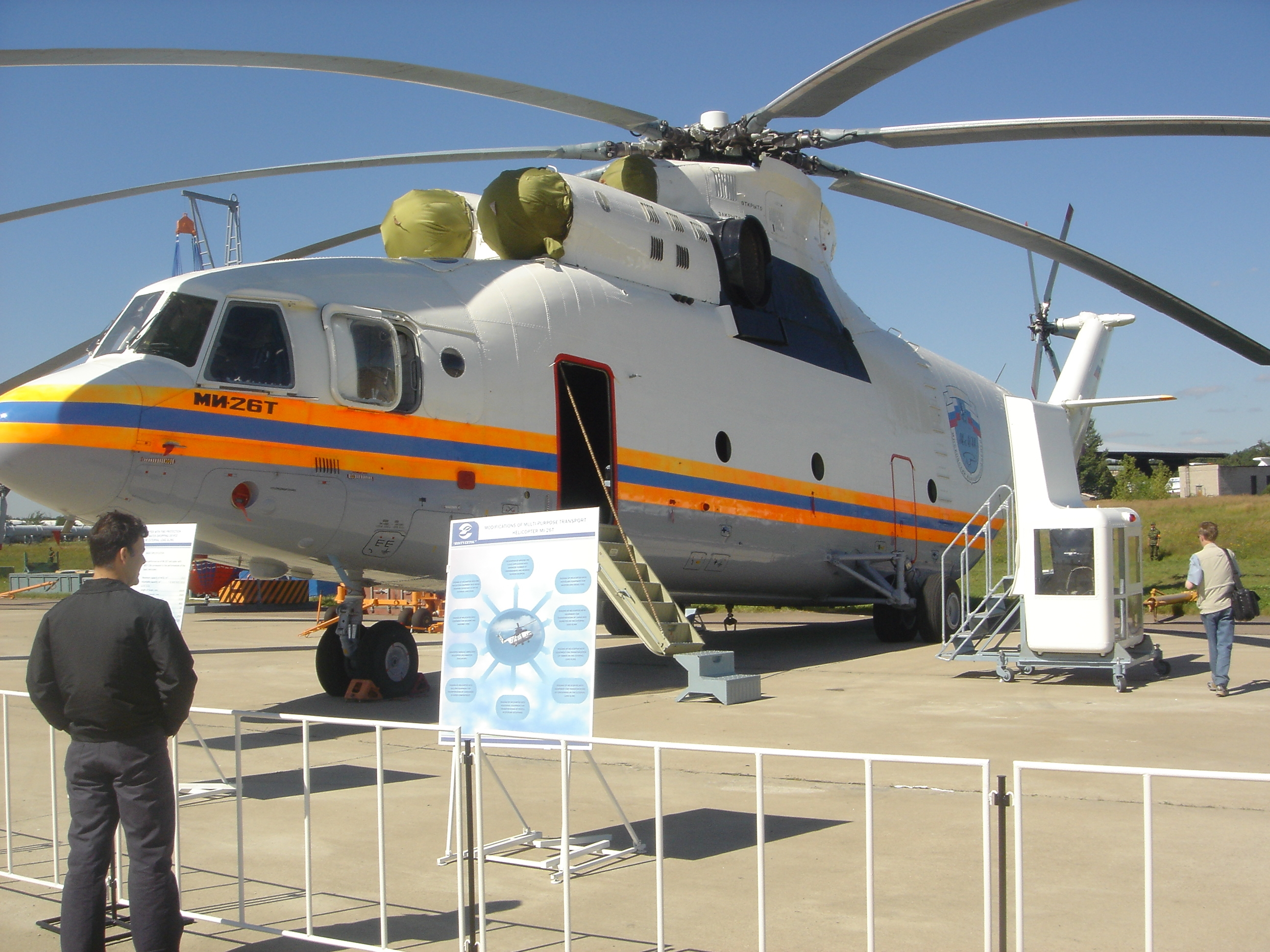 Mil Mi-26 at MAKS 2005 air show